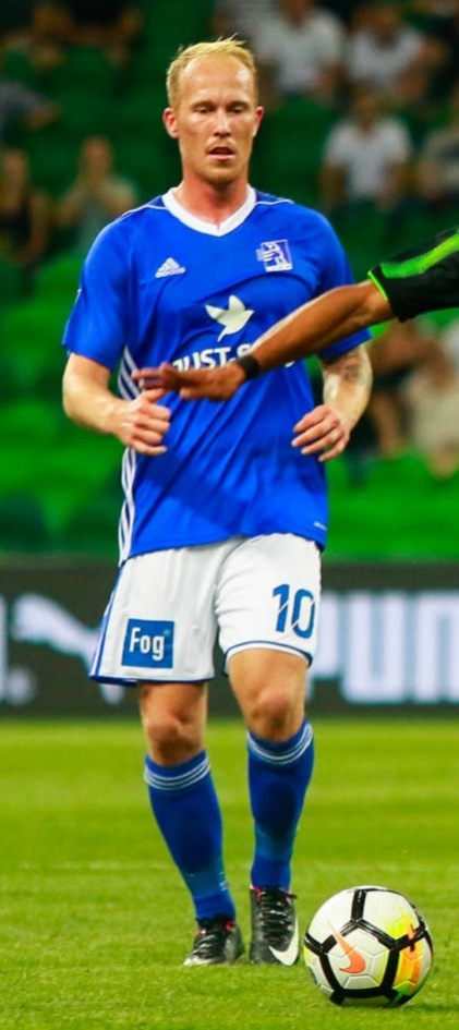 Mikkel Rygaard Jensen with Lyngby in an Europa League game against FC Krasnodar.